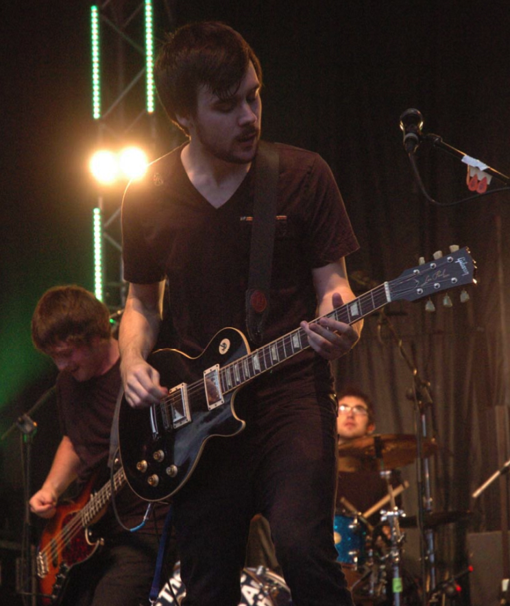 'The Automatic performing at this years Barry Waterfront Festival'